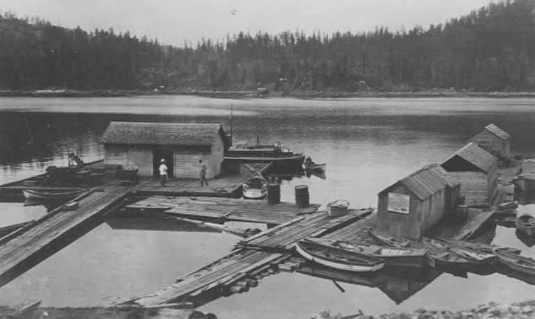 Original Henry Art Gallery collection catalog number: 625W PH Coll 1395.120c Subjects (LCTGM): Lumber camps--British Columbia; Shantyboats--British Columbia; Rafts--British Columbia; Rowboats--British Columbia